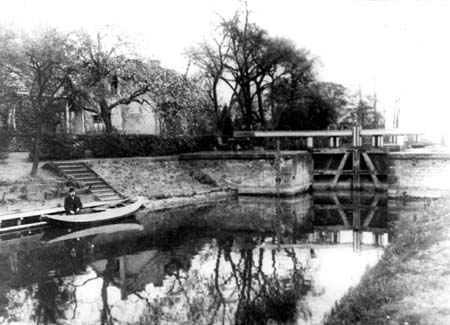 historic picture of Lippeschleuse Heesen, bevor 1900